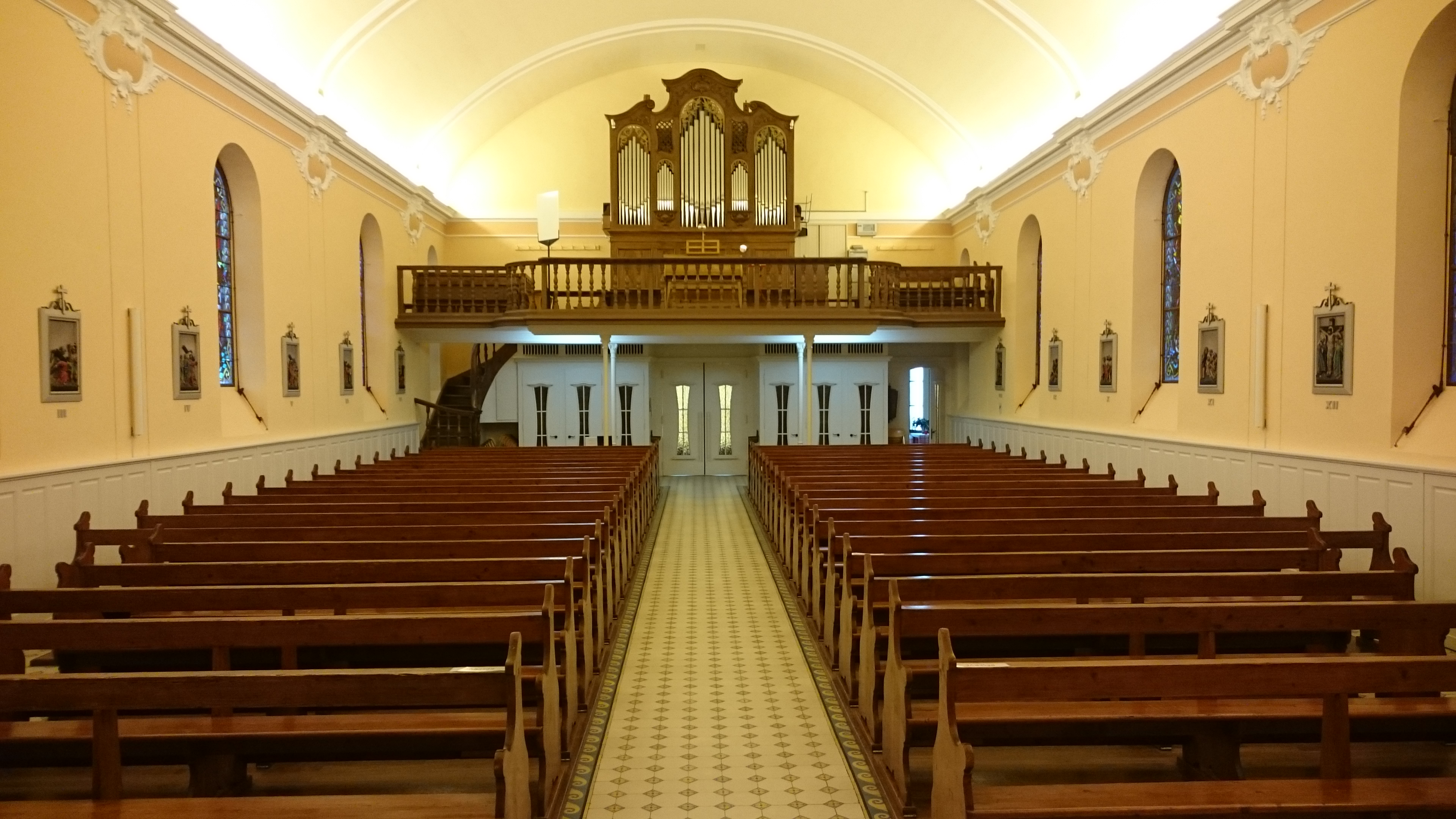 Nave of the church Saint Nicholas of Myra at Villars-le-Terroir.